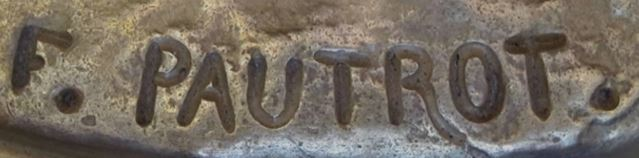 Signature of French sculptor Ferdinand Pautrot (1832—1874)